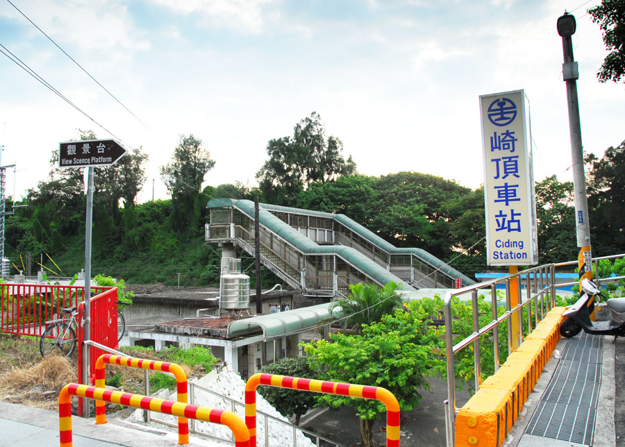 Ciding Station is a small local train station of Taiwan's Western main rail line. The station is located within the boundary of JhuNan Town. It's a staffless station.